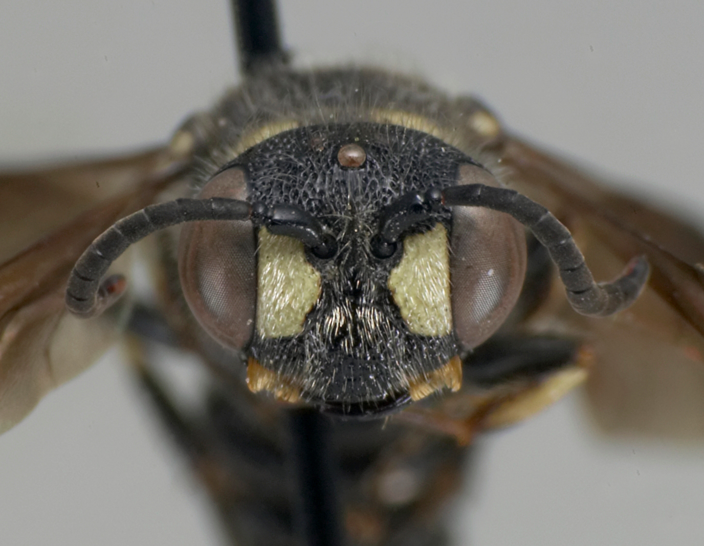 Front view of Cerceris fumipennis